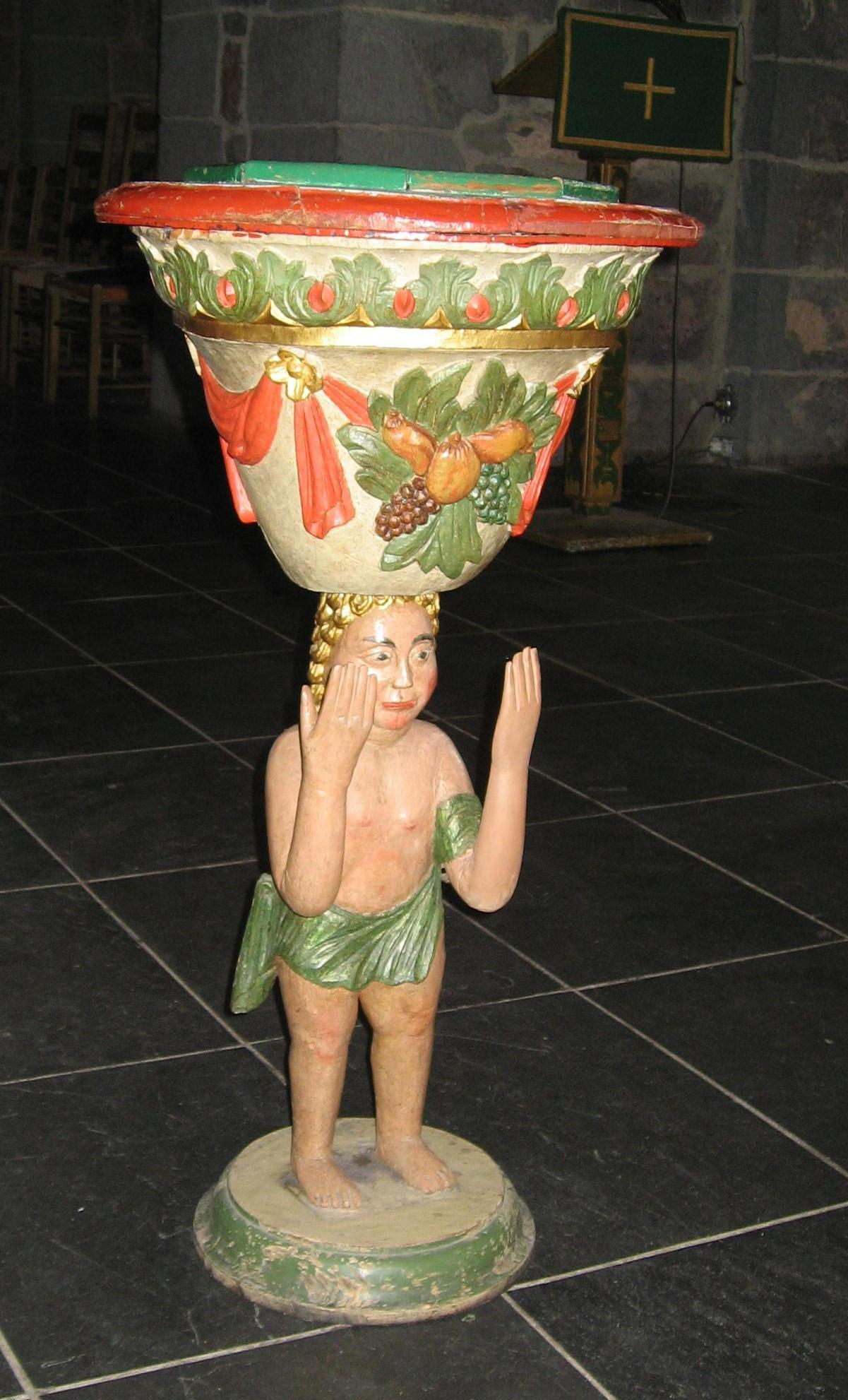 Baptismal font from 1715 by Thomas Blix. From Gamle Aker church, Oslo, Norway. (Cropped version)